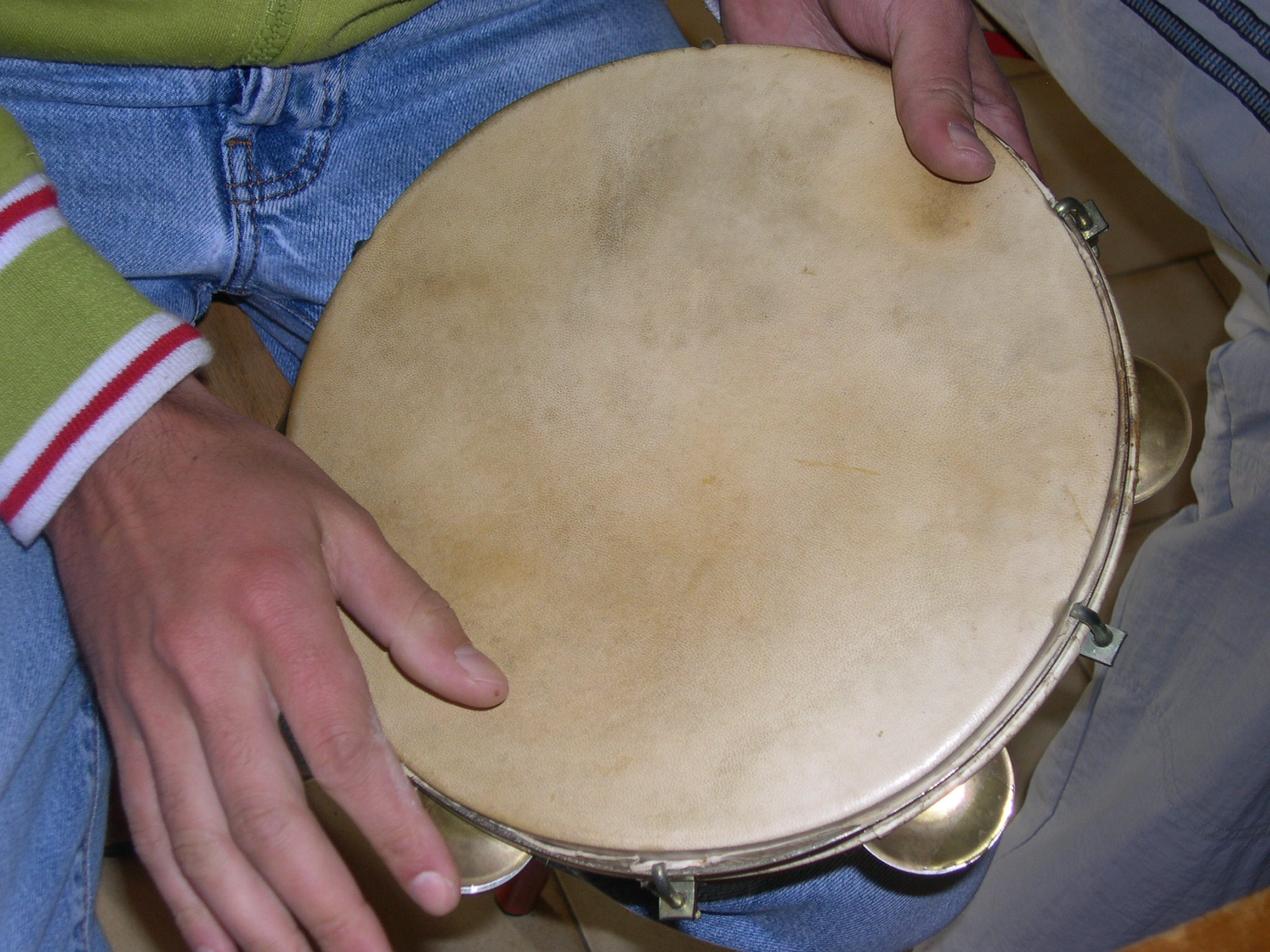 Pandeiro.